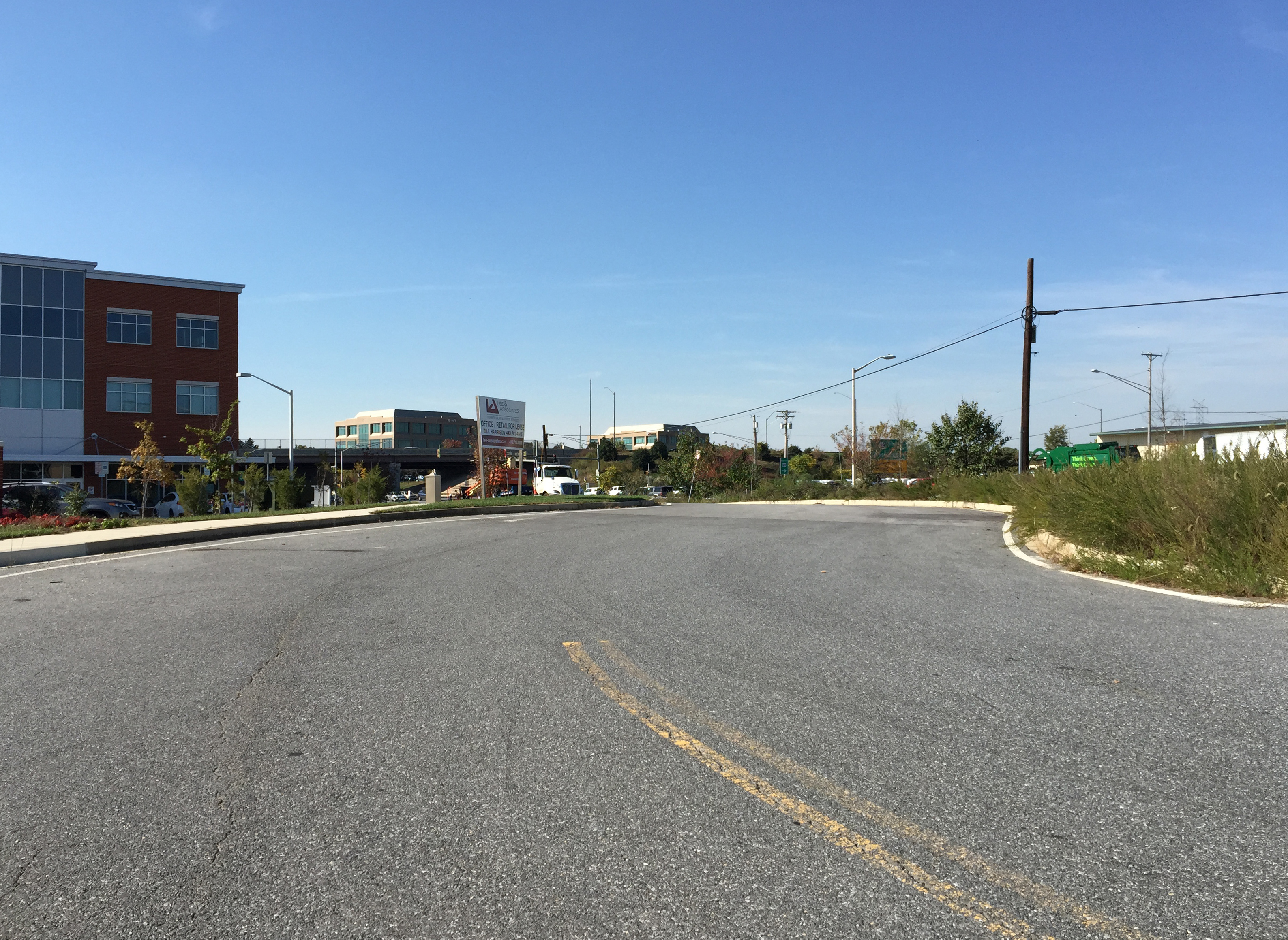 View west along Maryland State Route 998 at Star Point Lane in Burtonsville, Montgomery County, Maryland